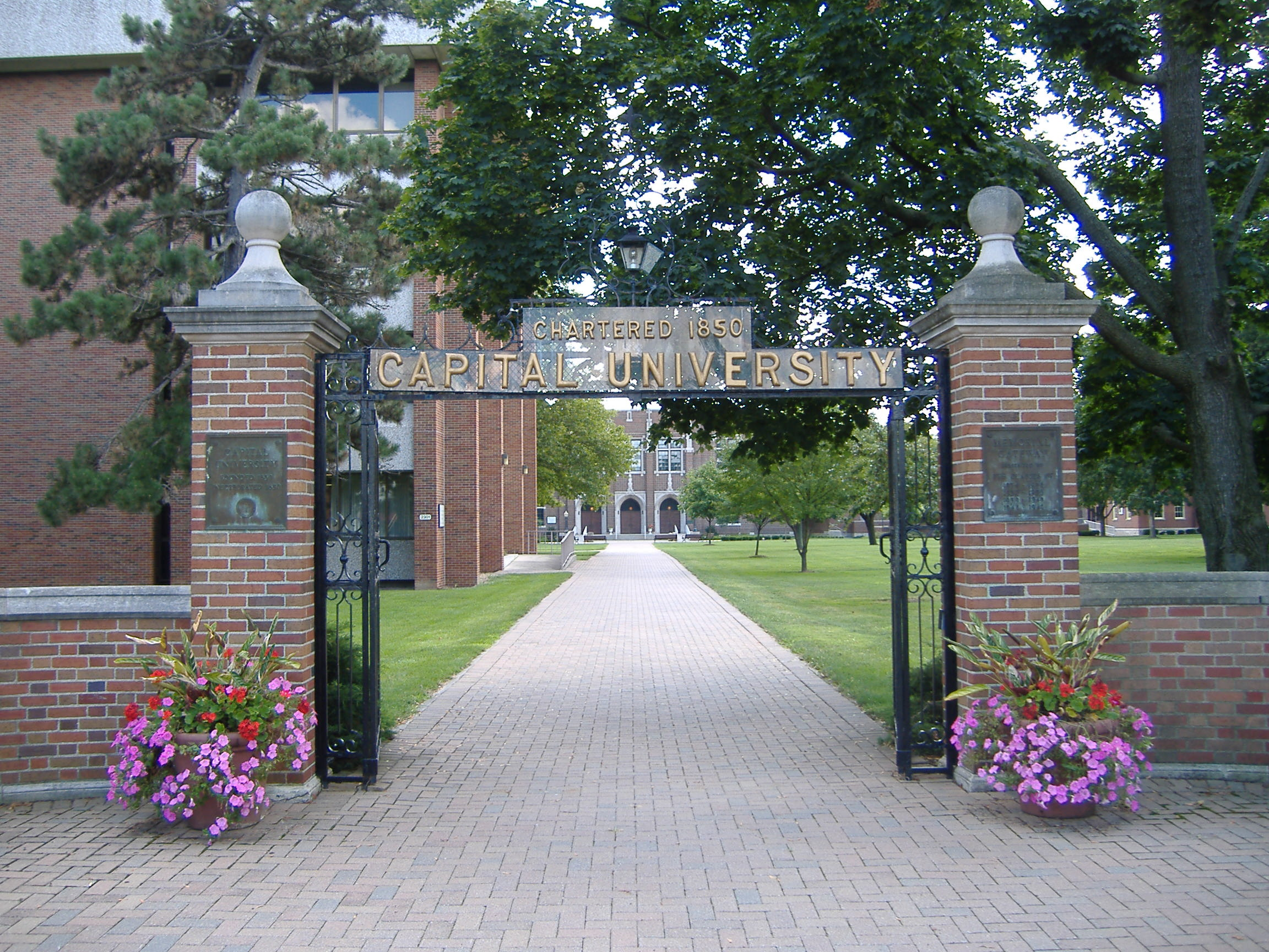 Gateway to the Capital University campus in Bexley, Ohio, USA, located on East Main Street opposite Drexel Avenue. On the left is the Josiah H. Blackmore Library, and in the far background is Mees Hall. Mees Hall is a part of the Capital University Historic District, listed on the National Register of Historic Places.